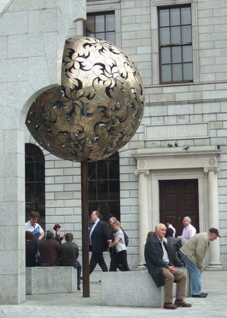 Sculpture, Dame Street Walking or sitting Dubliners seem oblivious to this ornate sphere on the plaza below the Central Bank of Ireland building.